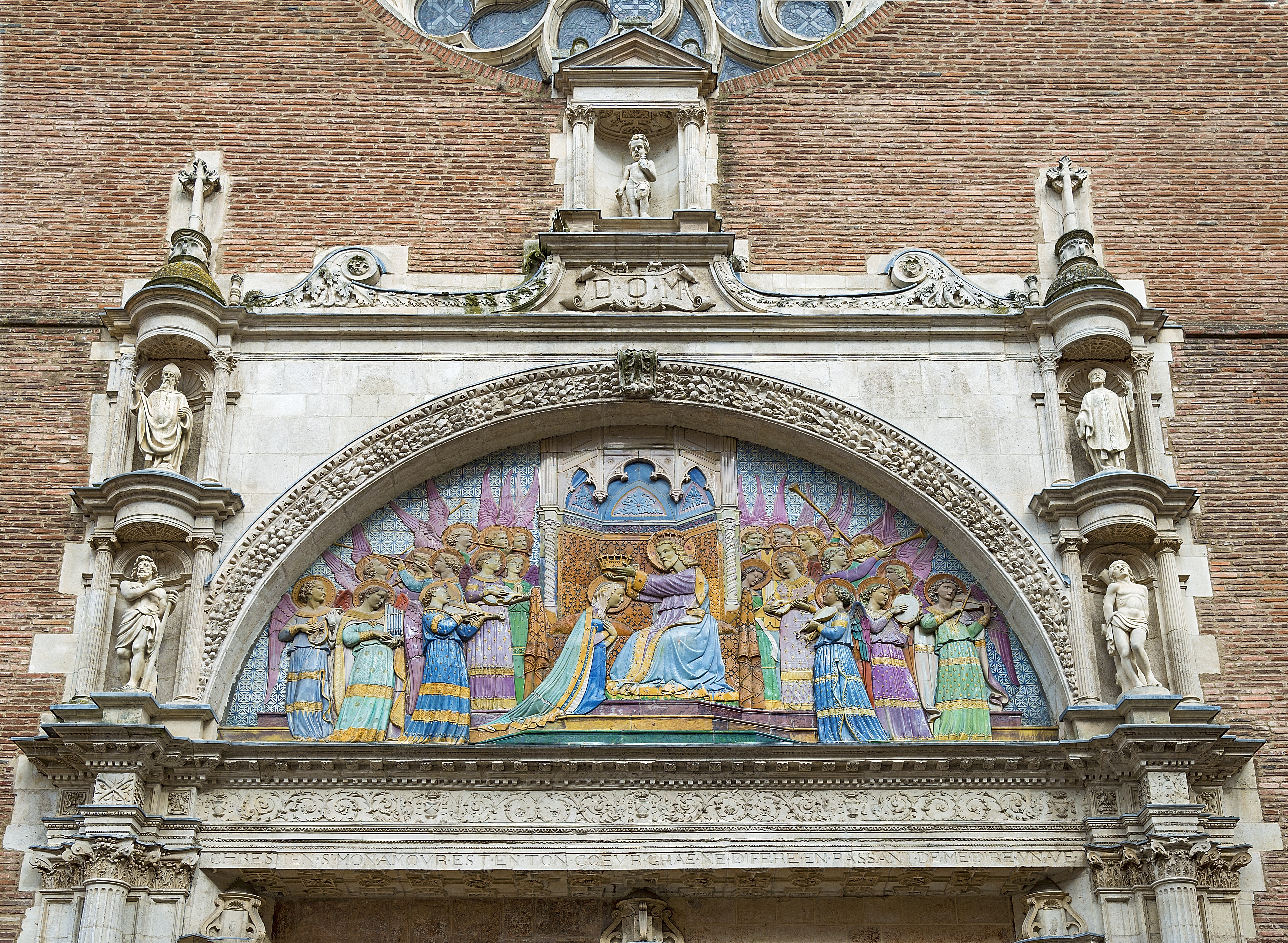 Notre-Dame de la Dalbade in Toulouse. Tympanum ceramic by Gaston Virebent (1878) after the coronation of the Virgin of Fra Angelico. Statues: St Rémi left and below St Jean-Baptiste, right Bishop Germerius and below St Sebastian. The statue above the fresco depicts the Child Jesus. Adolphe Charles and sculptors Azibert Ponsin-Andahary.